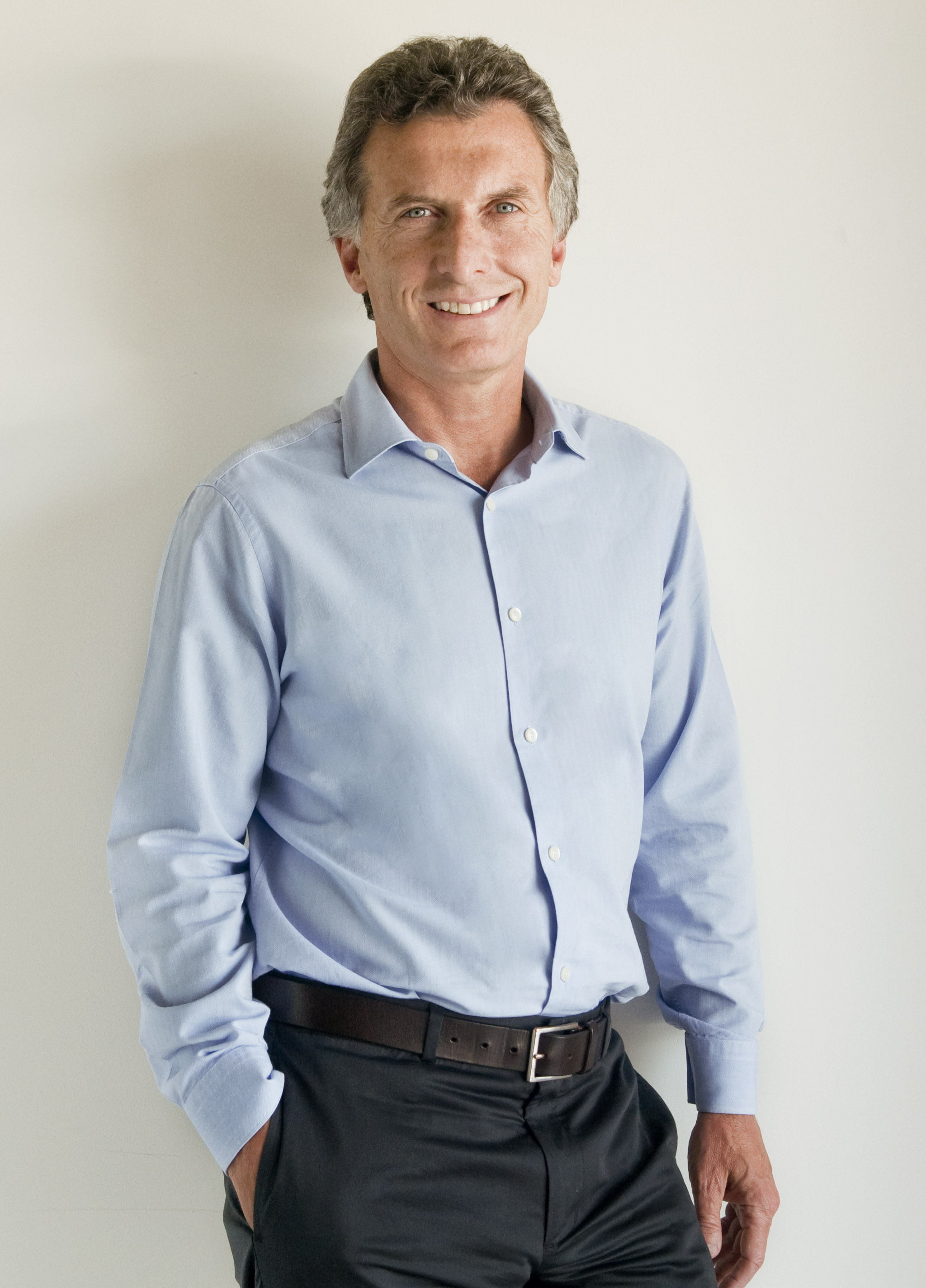 Official photo of Mauricio Macri